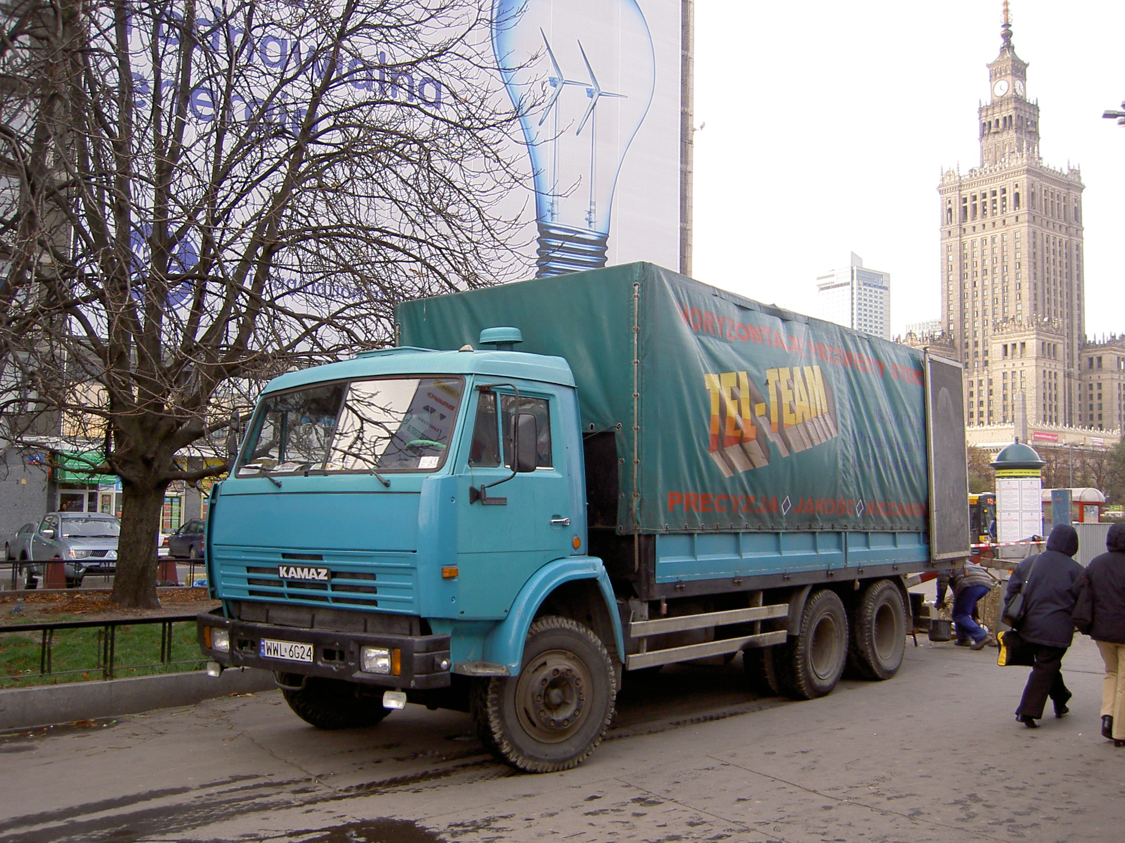 Kamaz 5320 truck seen in Warsaw, Poland. Picture taken by me in november 2006.